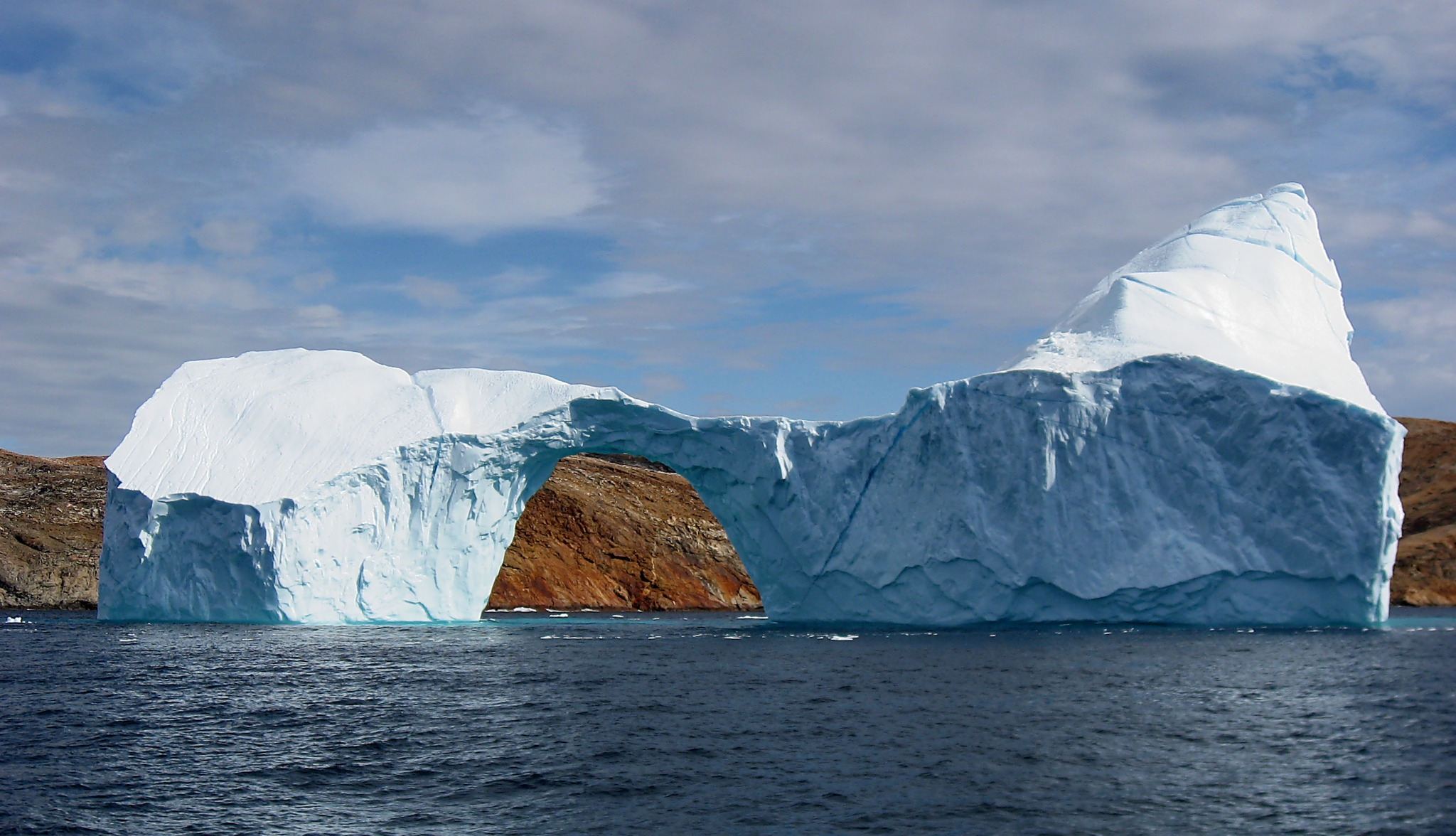 Iceberg with a hole in the strait between Langø and Sanderson Hope south of Upernavik, Greenland.